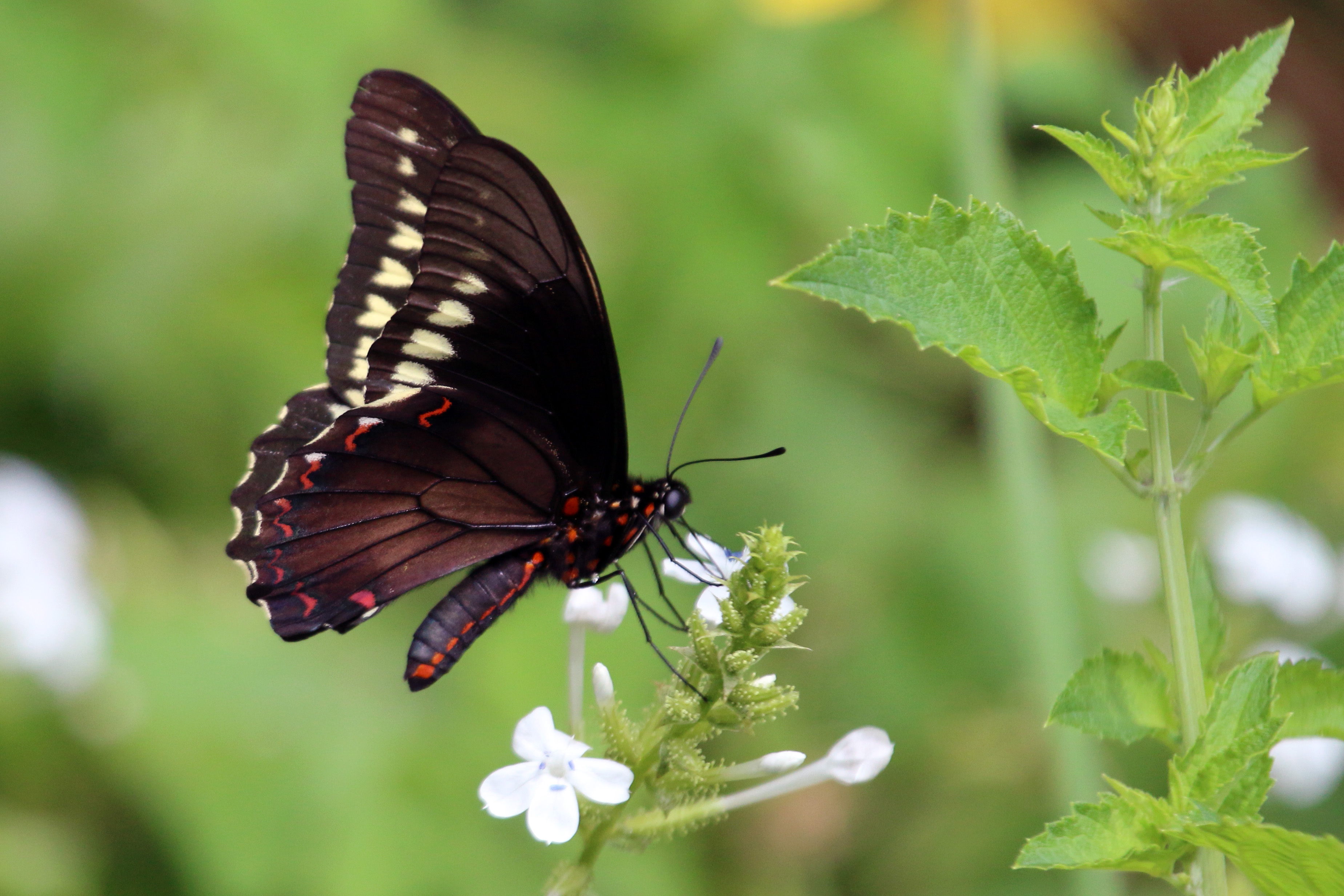 Gold rim swallowtail butterfly (Battus polydamas jamaicensis), Tobago